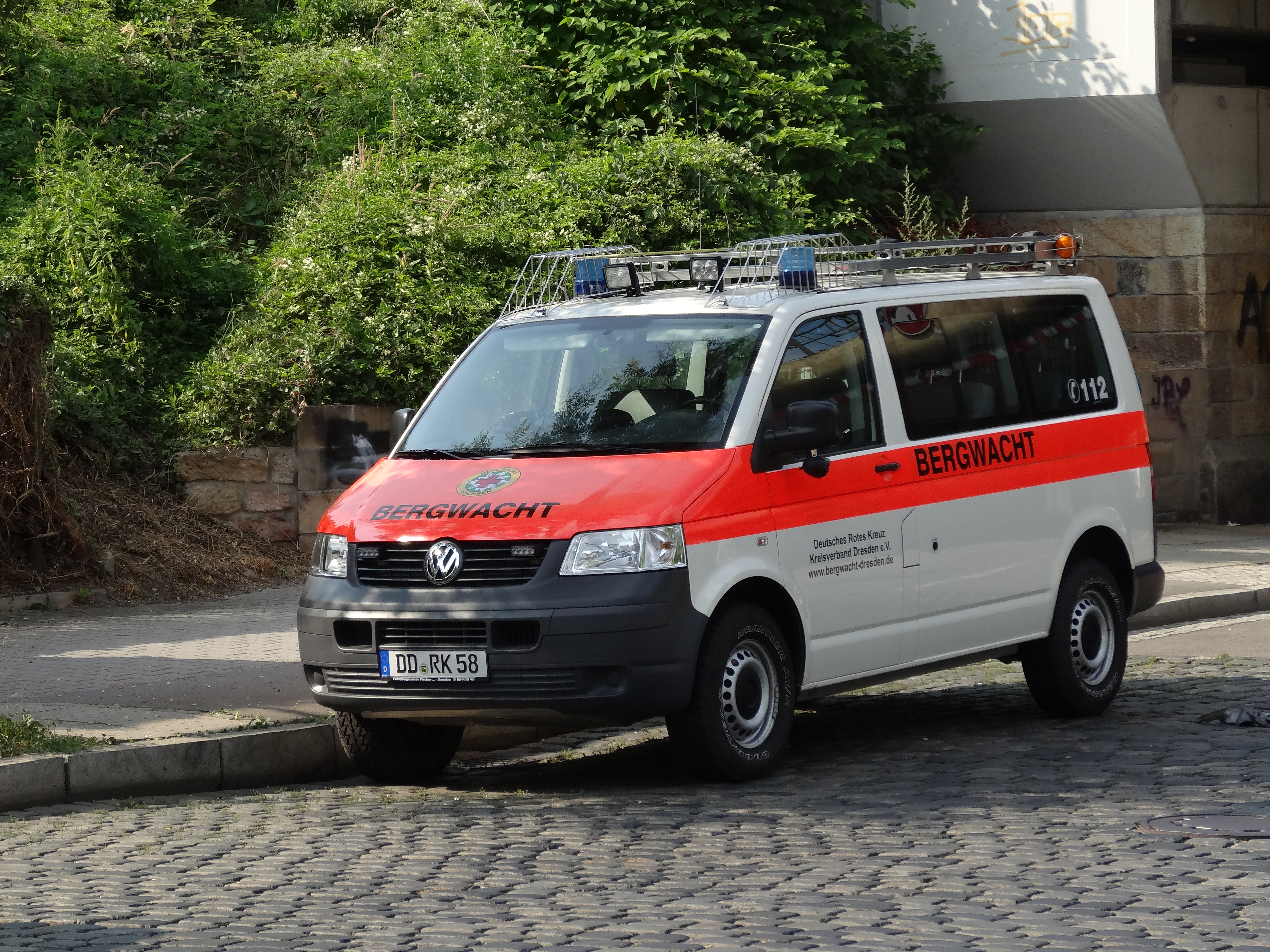 Mountain rescue service's vehicle from Area Saxony